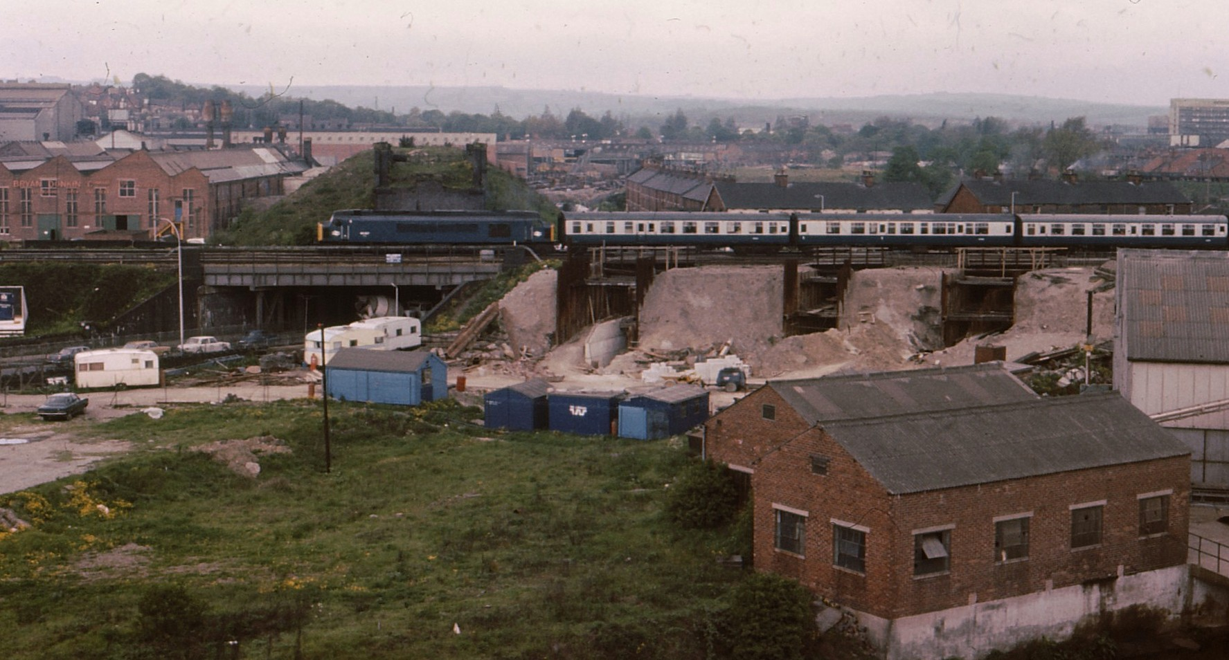 A scene that has changed out of all recognition.The earthworks in the foreground is the new bridge which will carry the railway over the yet to be built Hasland Bypass and above the loco is the remains of the embankment that carried the L.D.E.C.R line to Chesterfield Market Place station. Although overgrown,under the three blue sheds is the Ex Great Central Railway trackbed. I doubt this shot would be possible now but I may have a look and give it a go